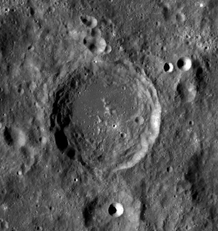 Marconi lunar crater - LRO-WAC image